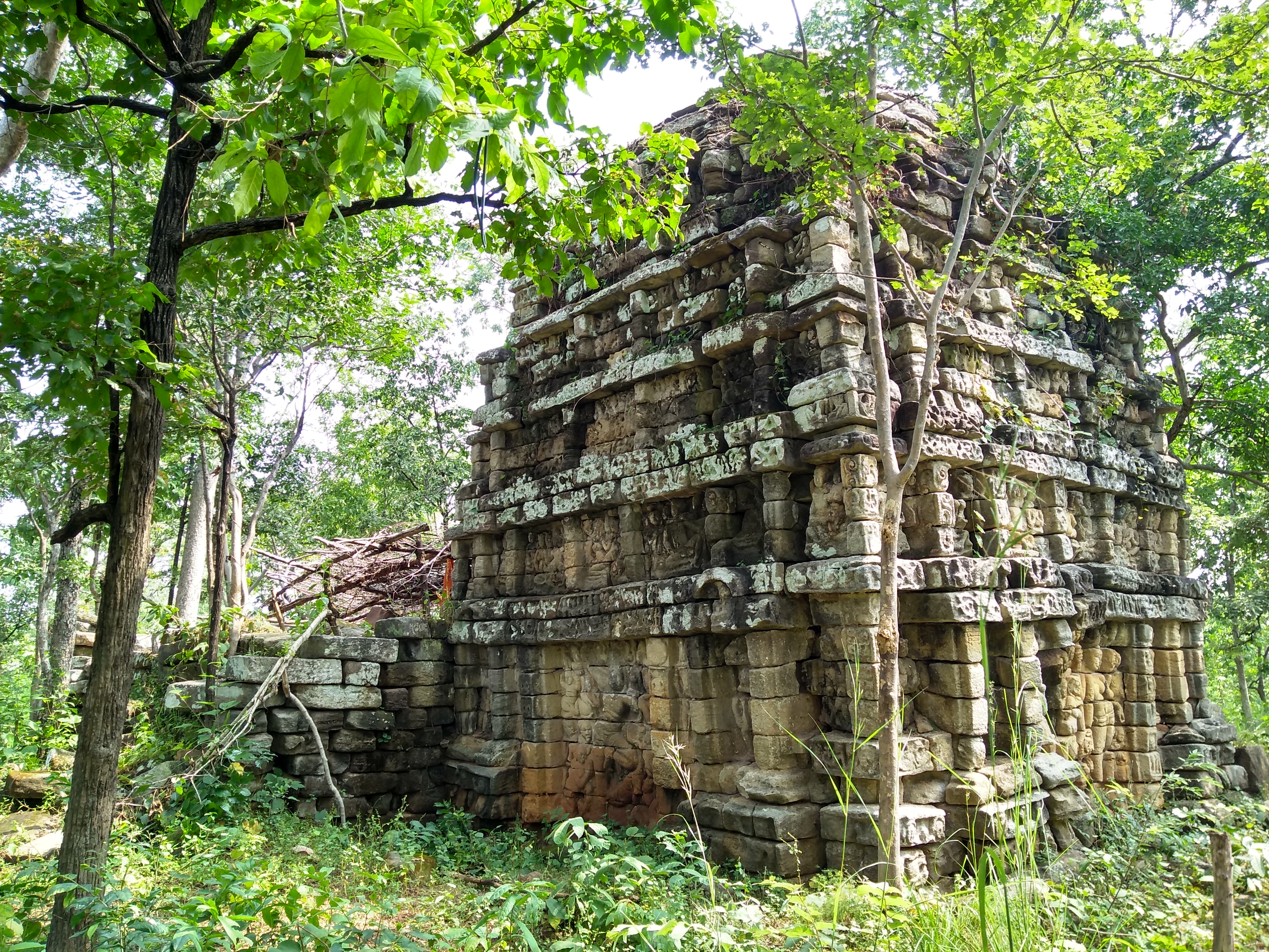 Devunigutta Temple In Kottur Village, Mulugu Mandal, Jayashankar Bhupalapally District, Telangana State